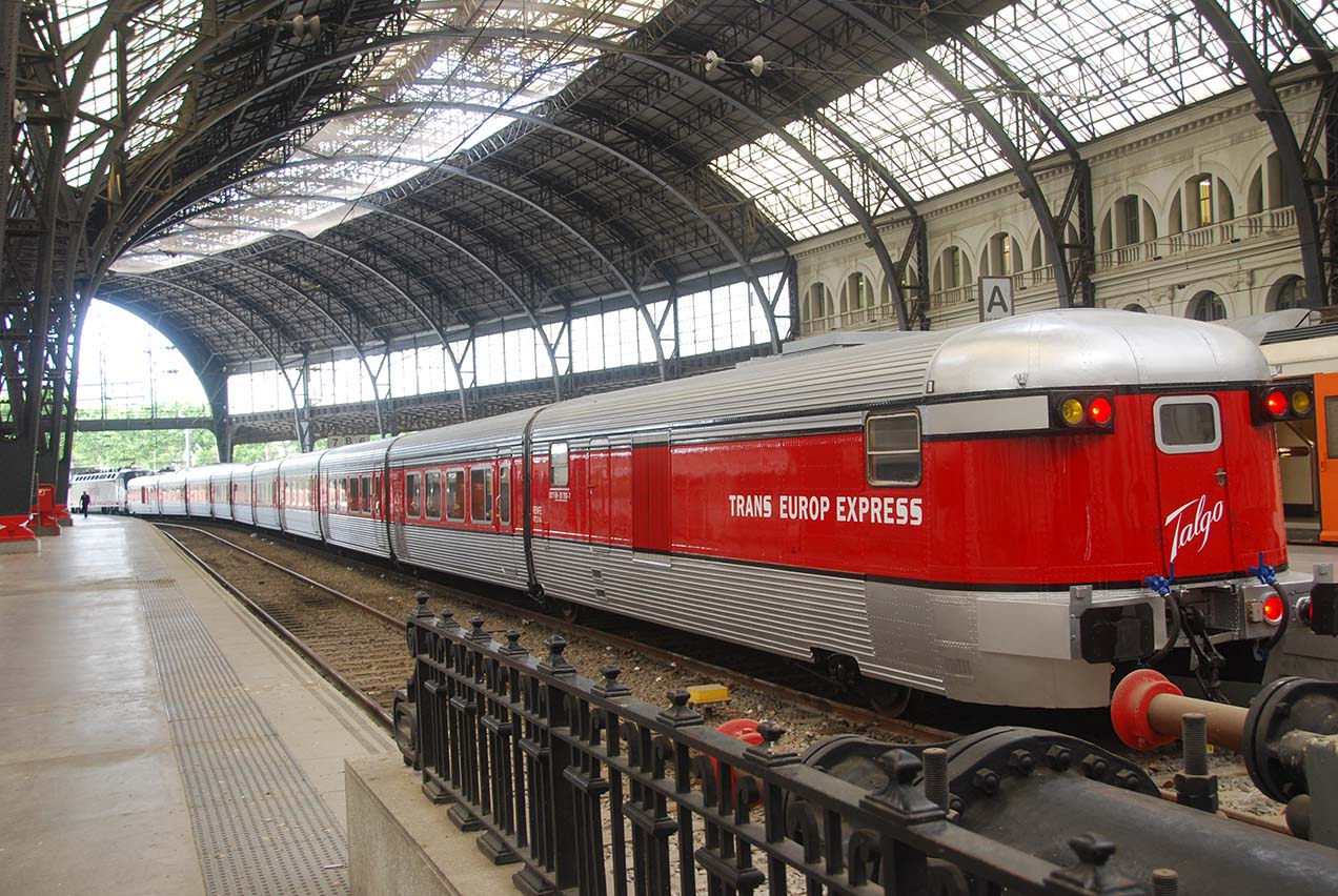 Picture taken in the "Estació de França" (France railway station) In Barcelona